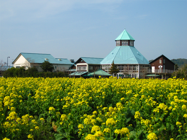 菜の花と枇杷倶楽部 (Rape Blossoms at Roadside Station TOMIURA) 12 Mar, 2010